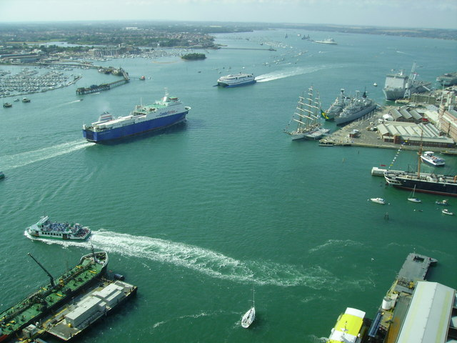 A busy scene with ferries Taken from the Spinnaker Tower, the Gosport Ferry leaves at the bottom of the photograph, another ferry heads into the harbour and a catamaran leaves. A clear impression is gained of what a superb harbour Portsmouth is.